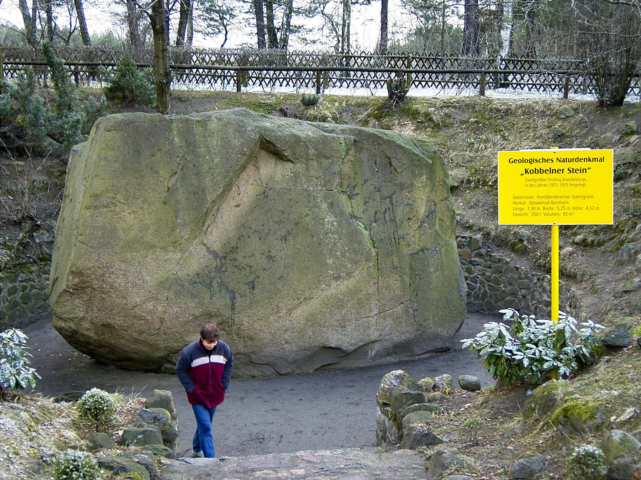 Glacial erratic Kobbelner Stein near Neuzelle (Brandenburg, Germany)